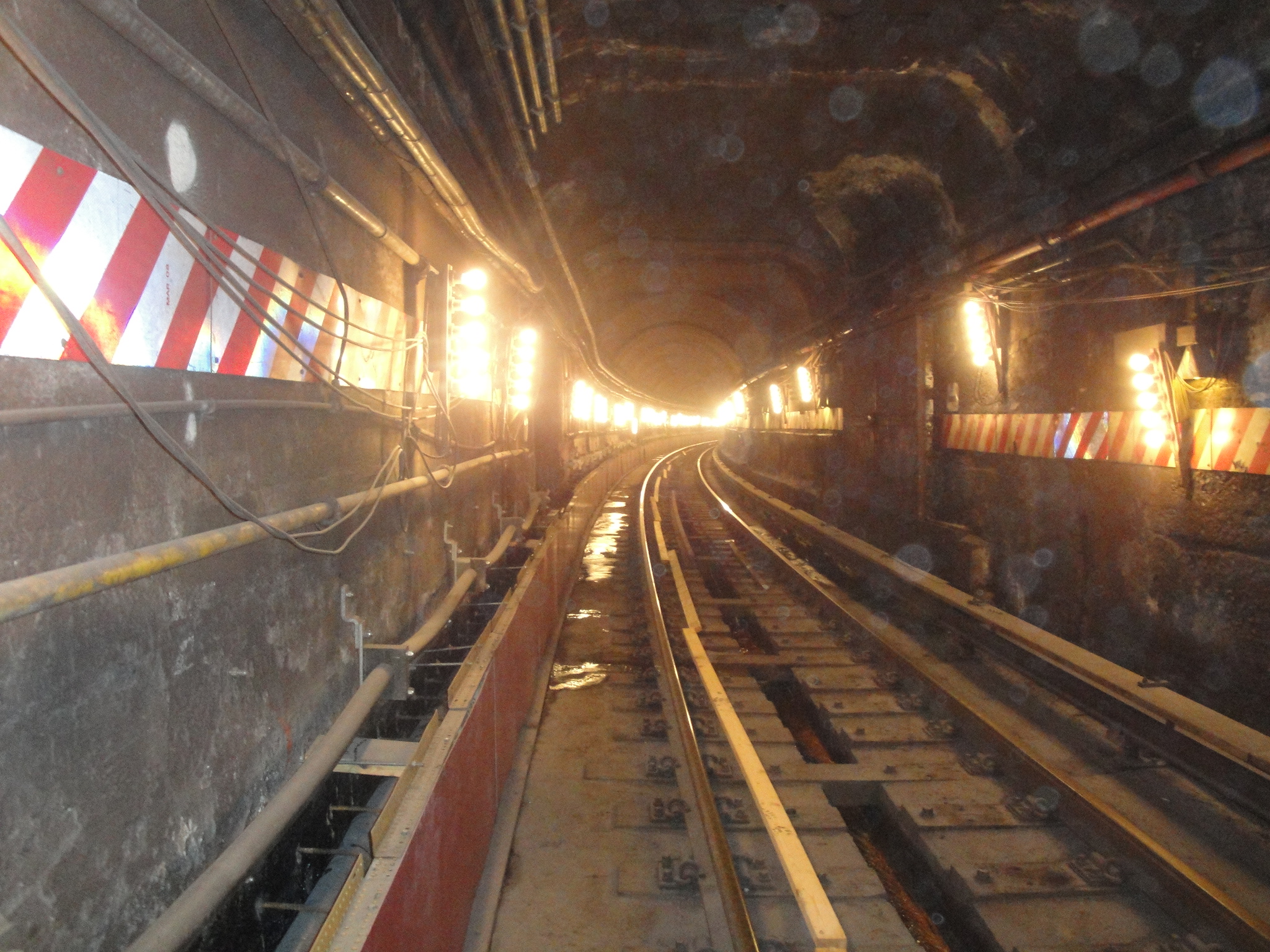 This is the first time we have used a crane to lower a cement truck onto tracks and into a tunnel. It's part of the vital work we're doing on weekends on the No. 7 line that will bring CBTC to the line and provide better and more reliable service.